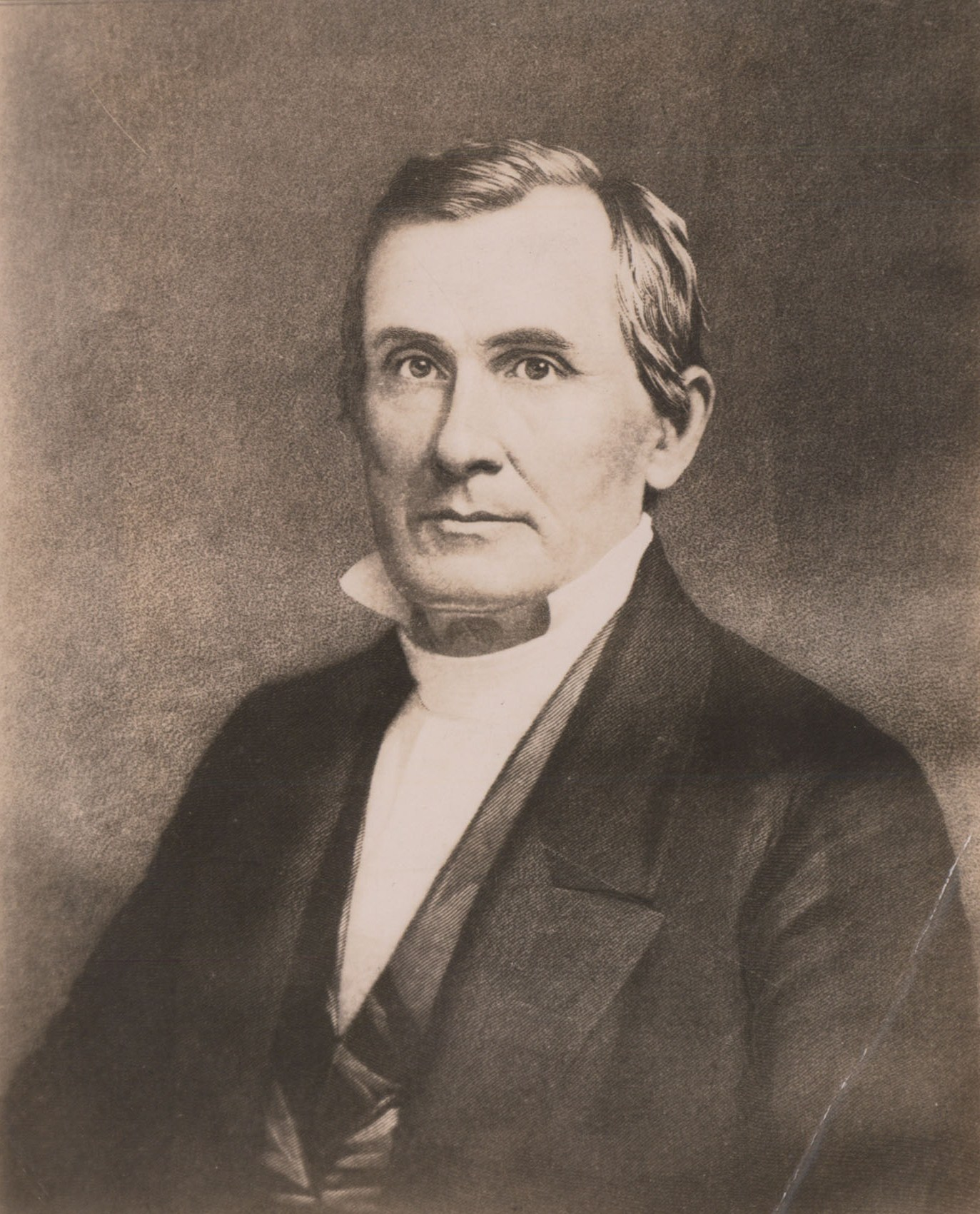 Image of George Junkin(November 1, 1790 – May 20, 1868) was an American educator and Presbyterian minister who served as the first president of Lafayette College and later as president of Miami University and Washington College (now Washington and Lee University).